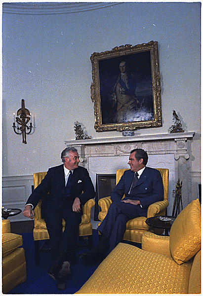 President Richard M. Nixon and Australian Prime Minister Edward Gough Whitlam meet in the Oval Office